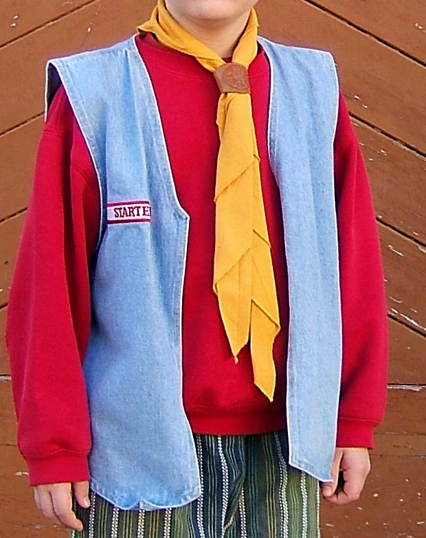 yellow neckerchief, leather woggle and denim vest of a 6-8 Years old scout of the German Royal Rangers